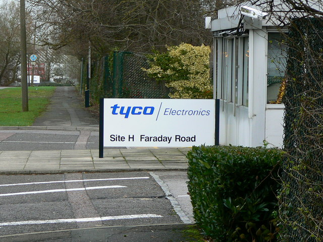 Tyco Electronics, Site H, Dorcan, Swindon This plant used to be known as 'Raychem', an American company, as is Tyco. Tyco is a conglomerate which expanded rapidly in the 1990s. 'Tyco' was referred to by some as 'Take Your Company Over'. Its former Chief Executive was the notorious Dennis Kozlowski. Read about him and his $6000 shower curtains here